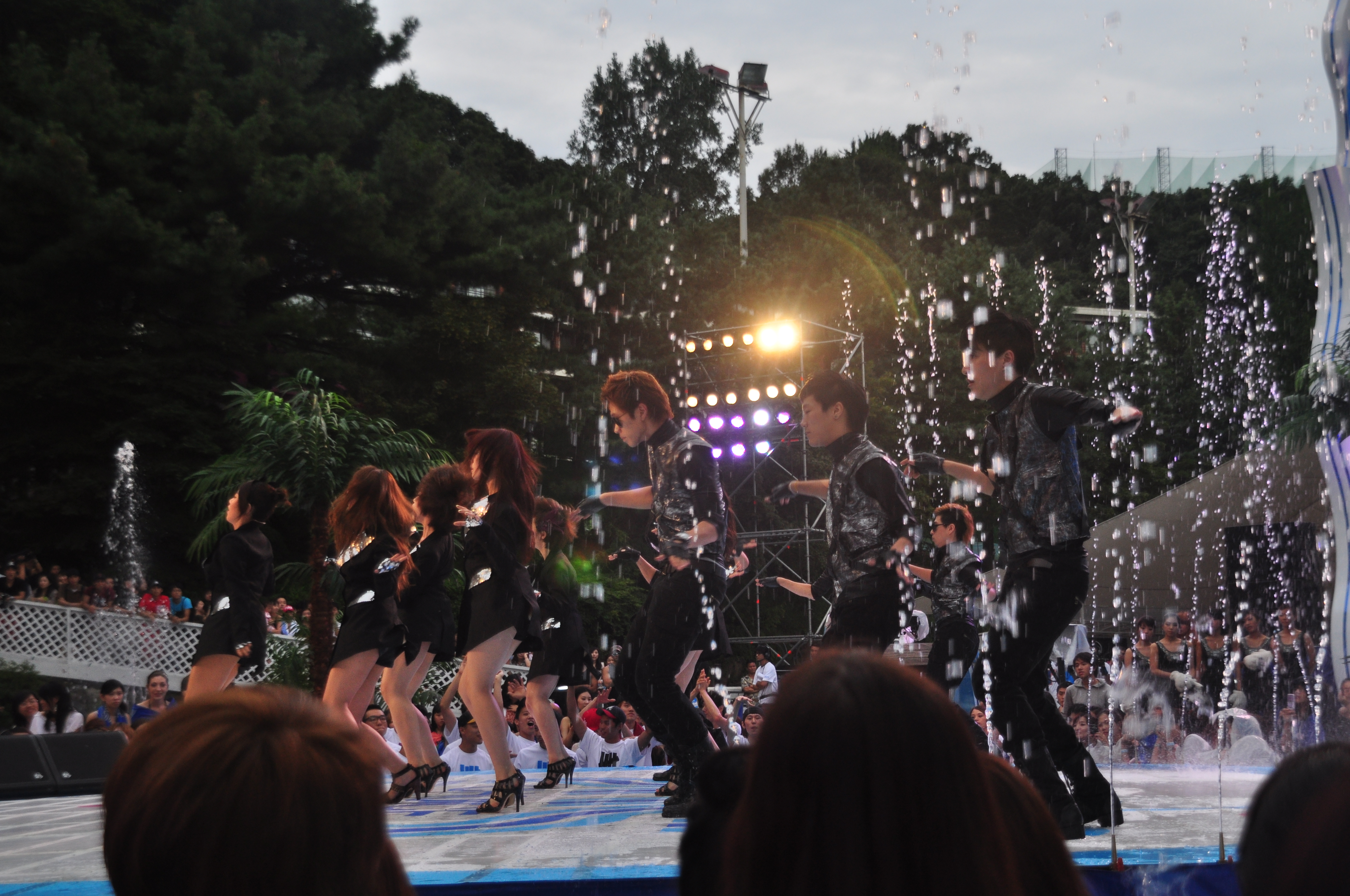 T-ara performing "I Go Crazy Because of You" at the Mnet 20's Choice Awards